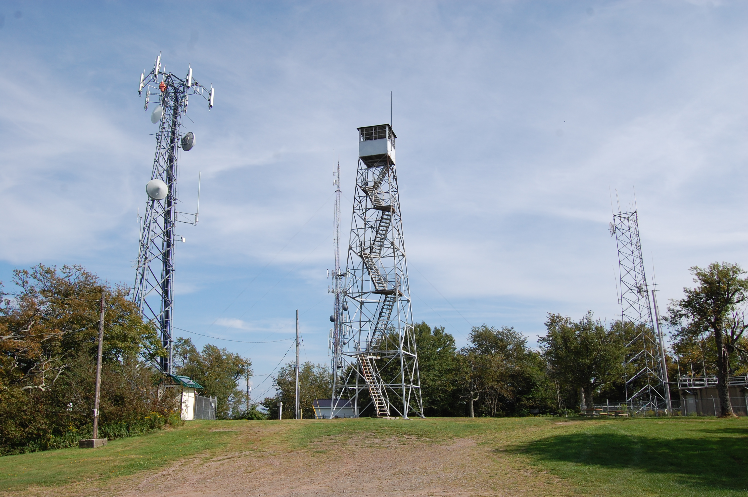 A fire lookout tower on Mount Utsayantha in Stamford, New York, USA.